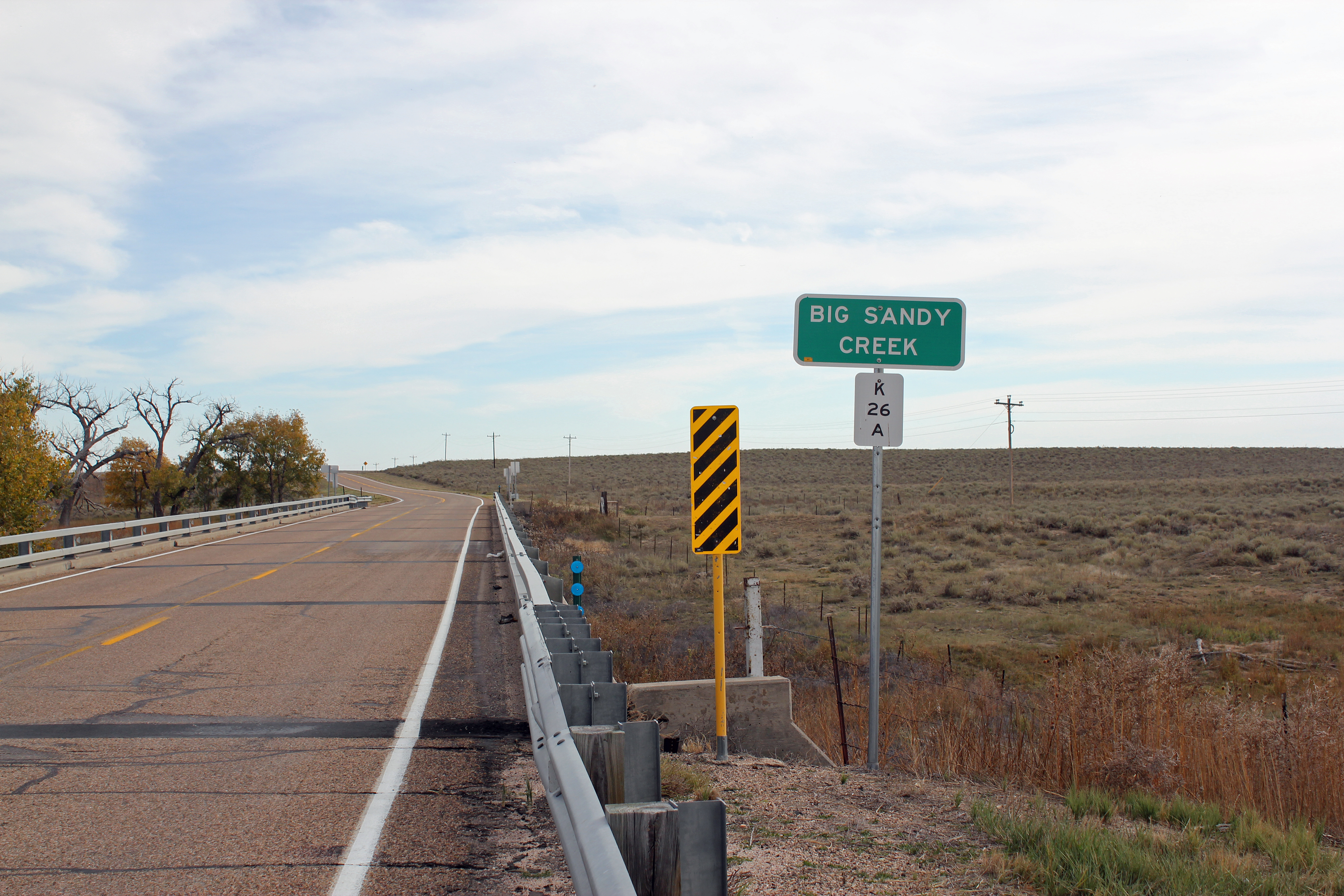 Big Sandy Creek in Kiowa County, Colorado. The view is looking east on Colorado State Highway 96 where it goes over the creek.